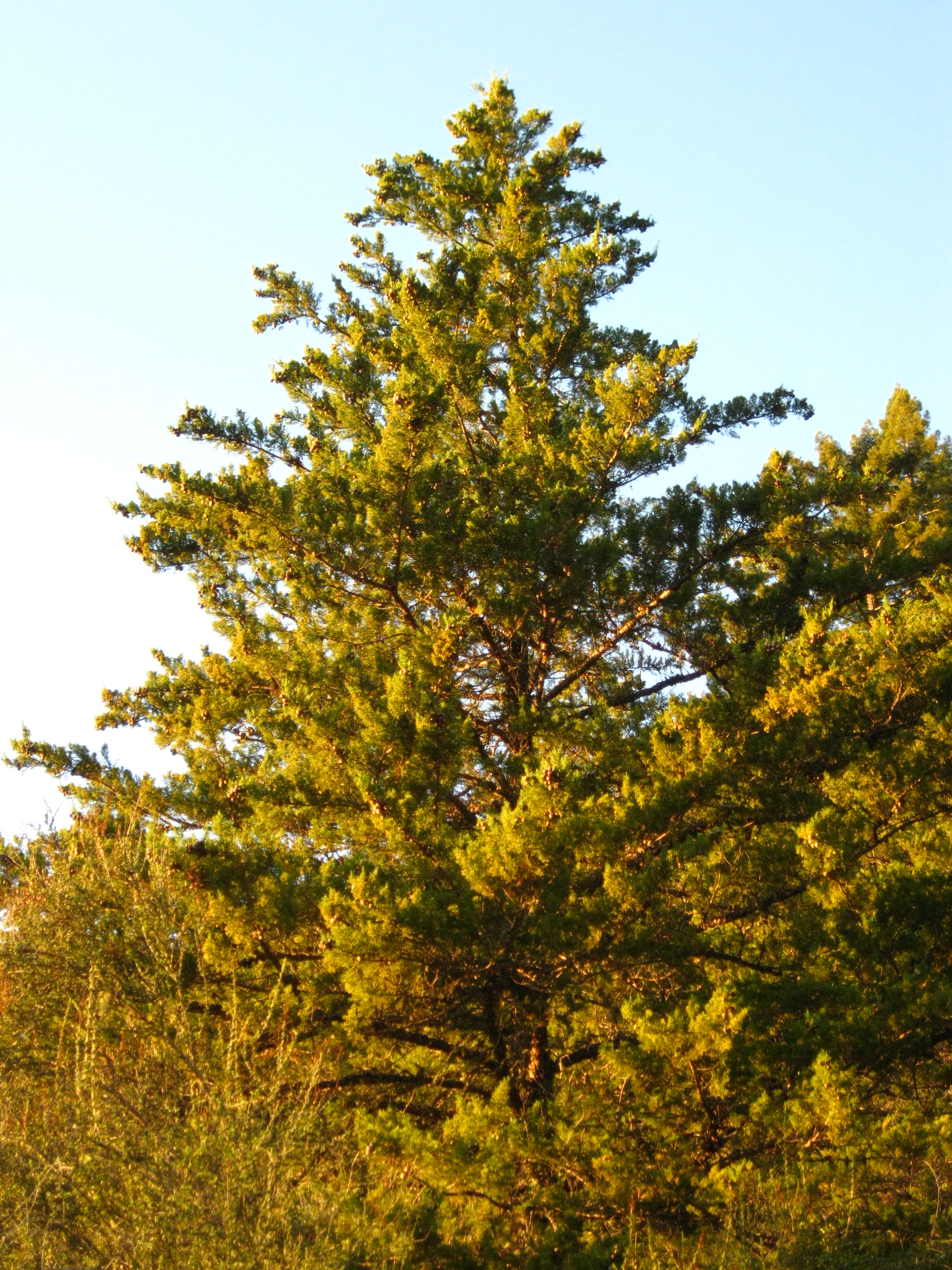 Cupressus abramsiana, Butano Ridge Grove, San Mateo County, Ca.